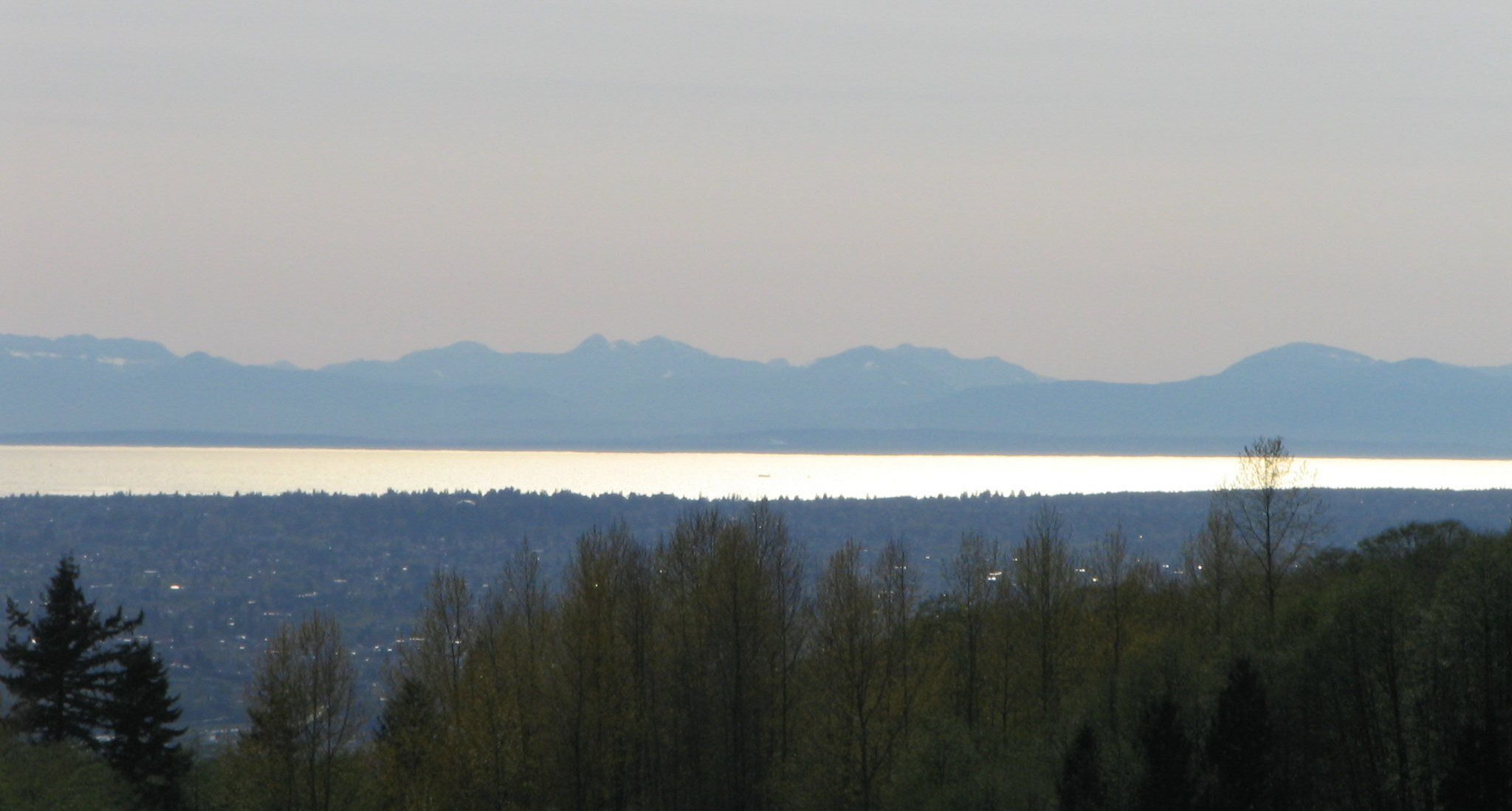 This image was created by me, Flying Penguin of Pacific Spirit Photography ( of Burnaby, BC, Canada